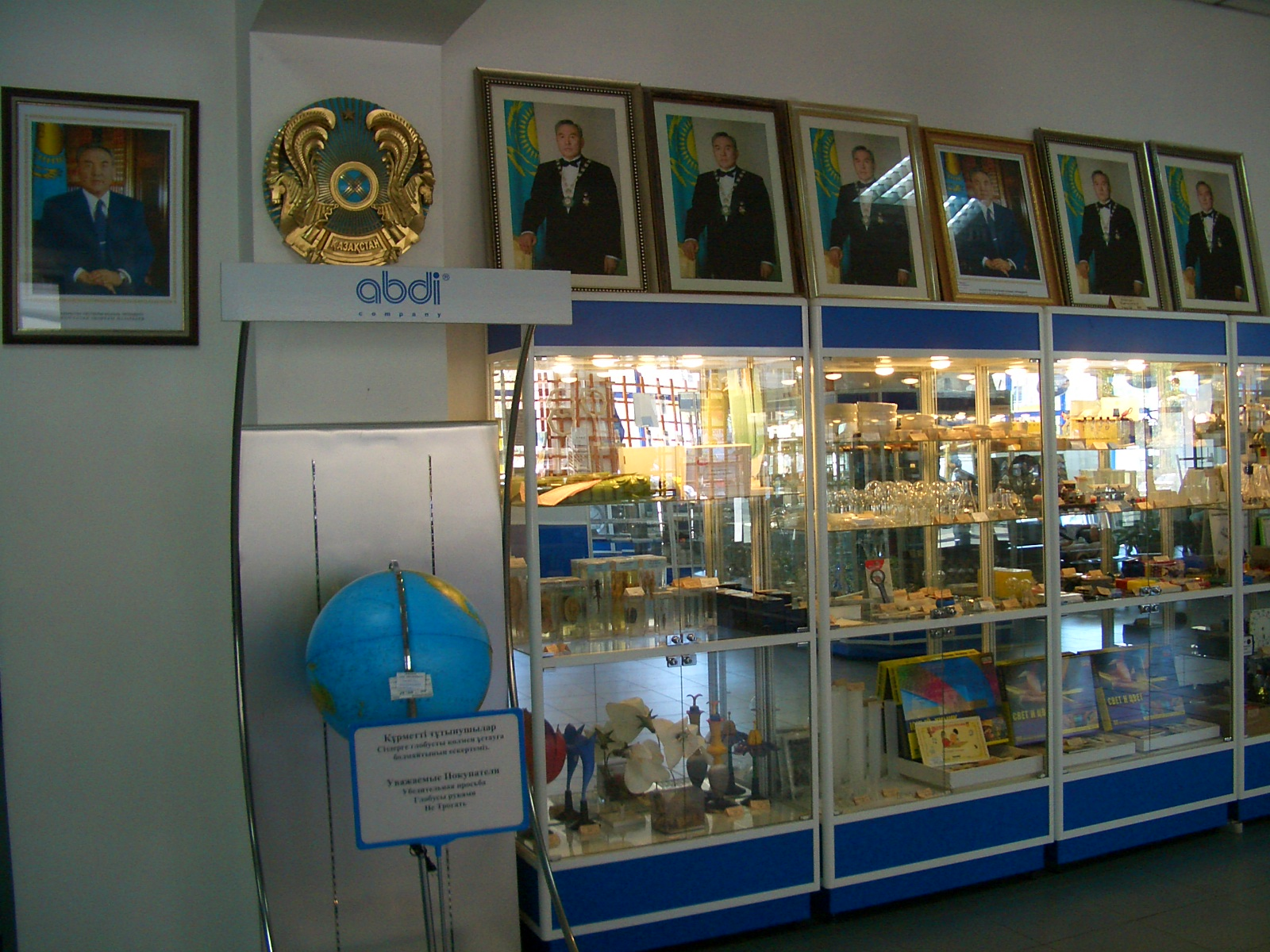 At the stationery counter in the Abdi Bookstore in Astana, which is said by the locals to be one of the best bookstores in the capital of Kazakhstan. A globe, and a selection of Nazarbaev's portraits is available for sale. City maps, alas, are harder to find.